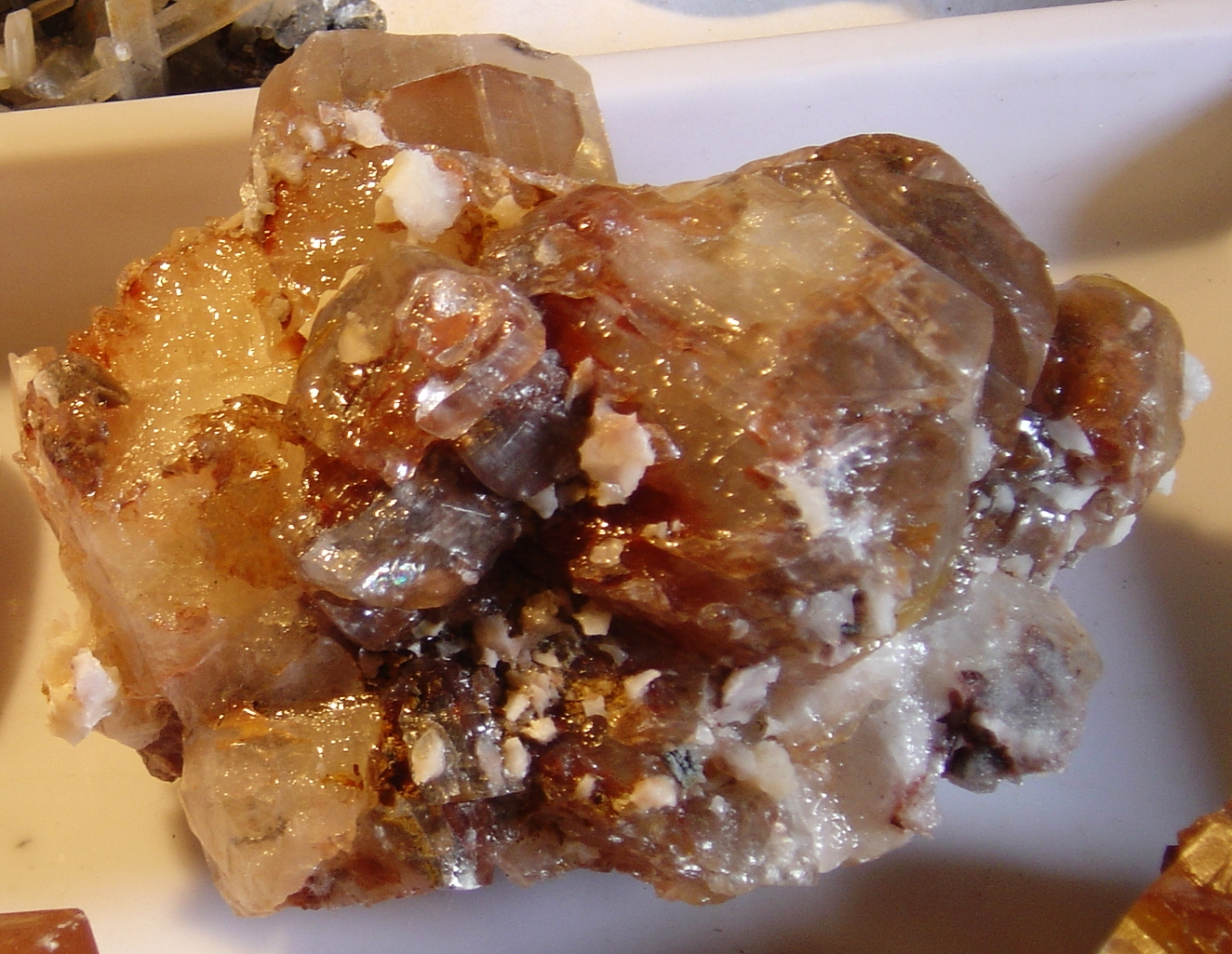 Hematite calcite I took this photo in october 2005